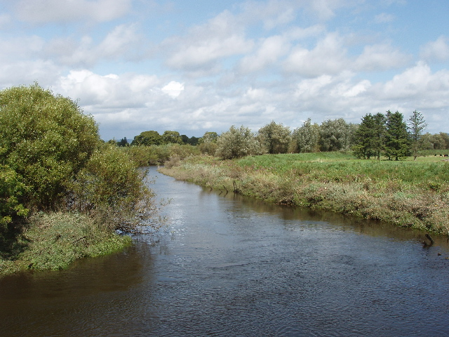 Clodiagh River near Portlaw View from Clodiagh Bridge which carries the R680 road over the river.